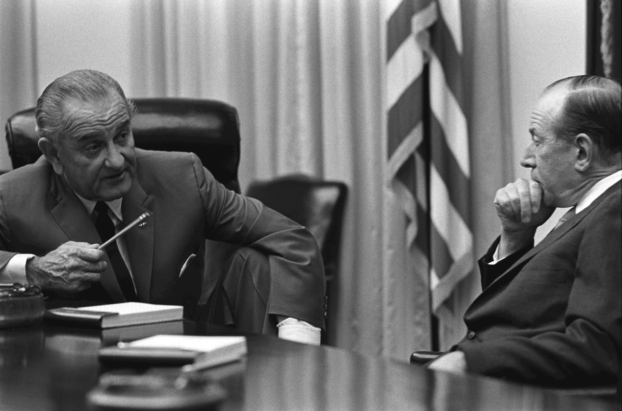 President Lyndon B. Johnson meets with Justice Abe Fortas in the Cabinet Room